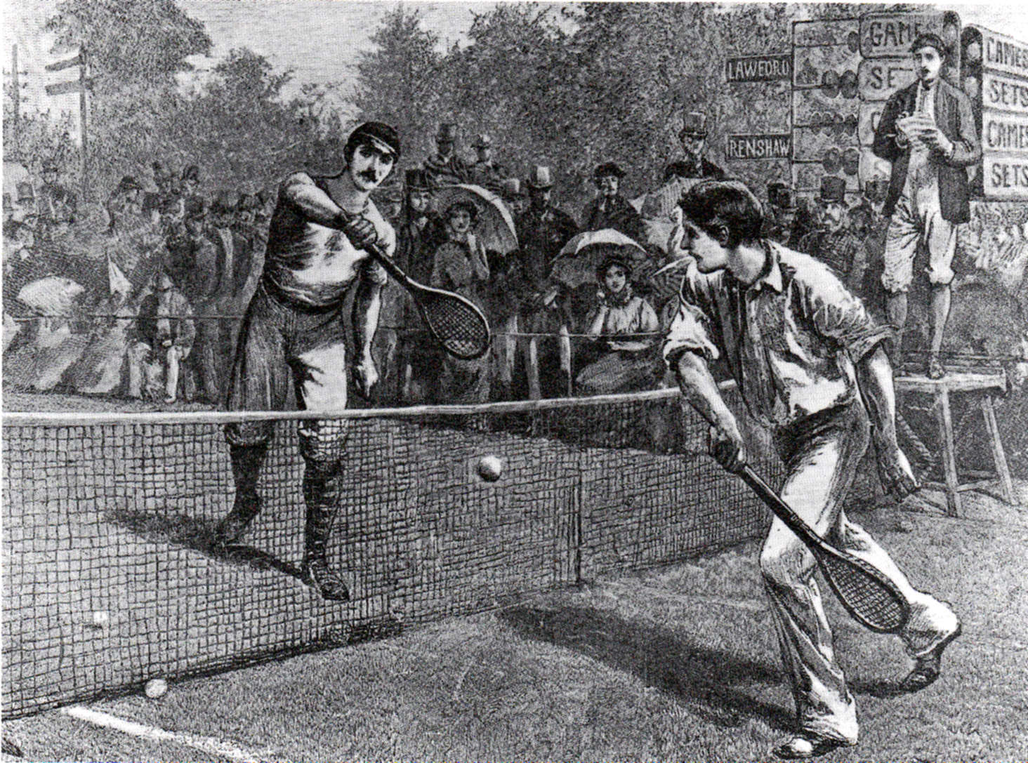 William (?) Renshaw and Herbert Fortescue Lawford, playing a match at the Wimbledon Championships in the 1880s